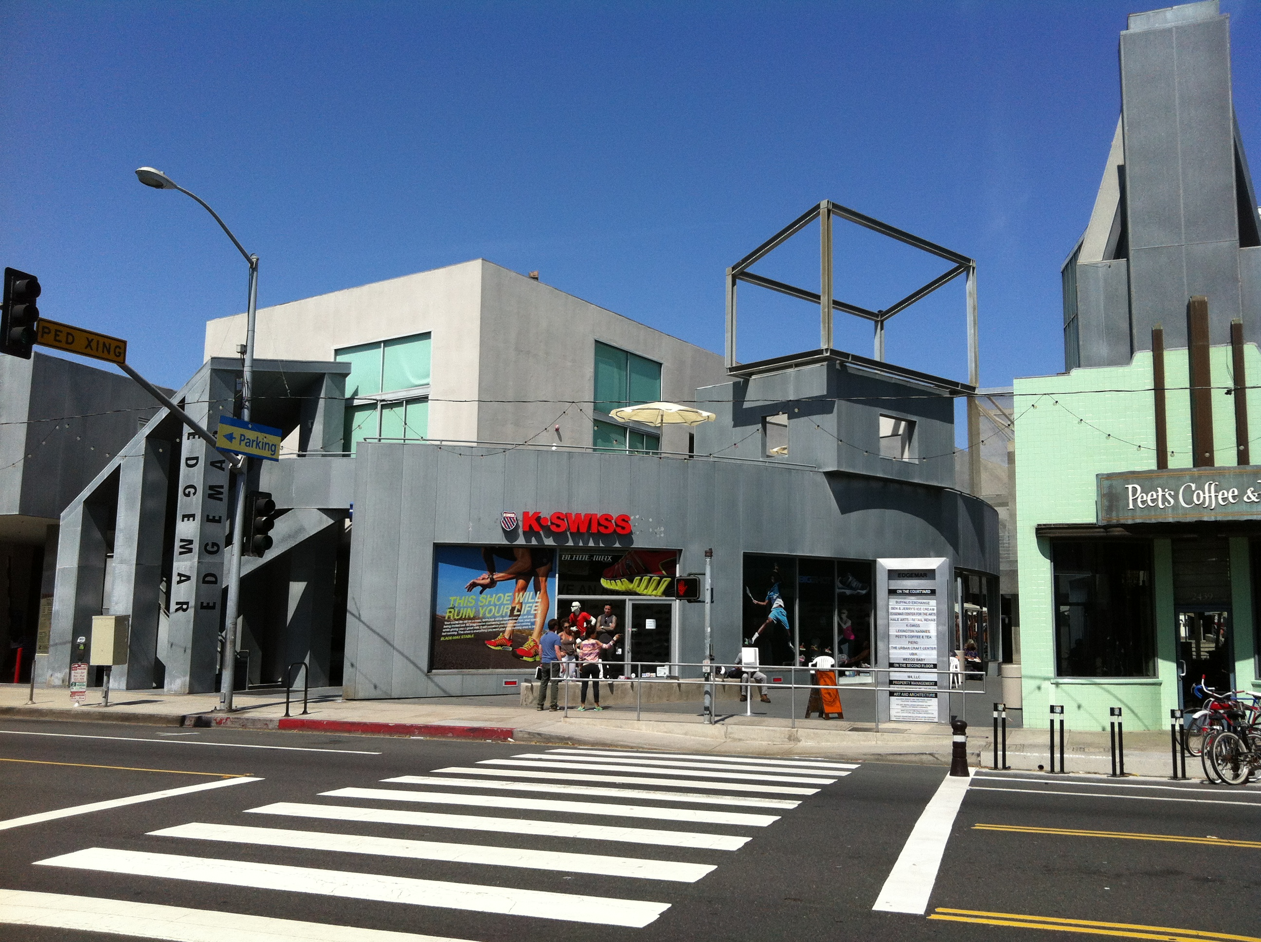 Edgemar by Frank Gehry in Santa Monica, CA. Taken by user on iPhone 4 on 4-8-2012.